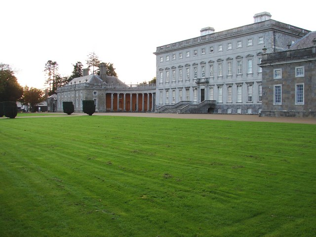 Castletown House View of this Palladian style mansion taken from the public route through the grounds.